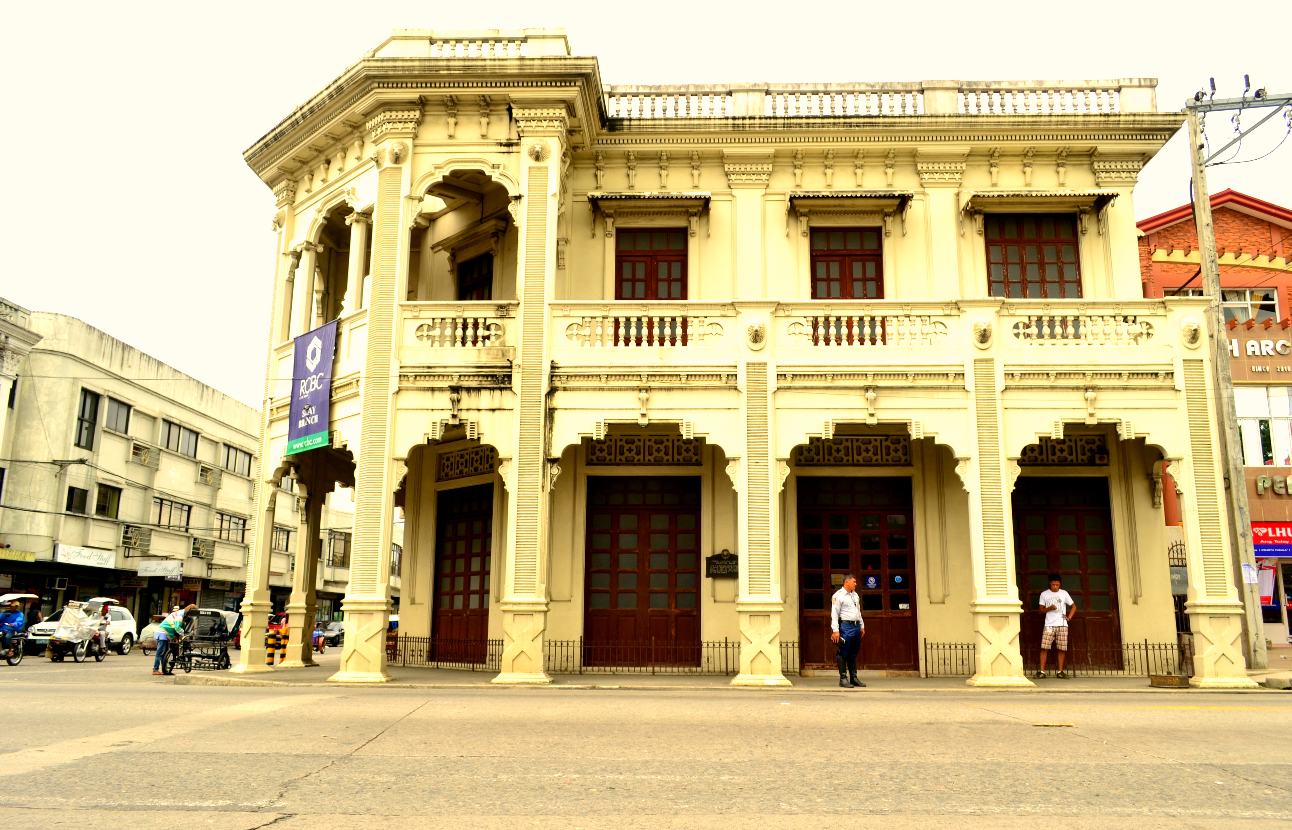 One of the registered heritage houses in Silay City, this house is along the road which is easy to recognize and locate because of its grandeur architectural design, is still standing proud. This heritage house is already used as commercial banking place by one of the banking companies of the Philippines.